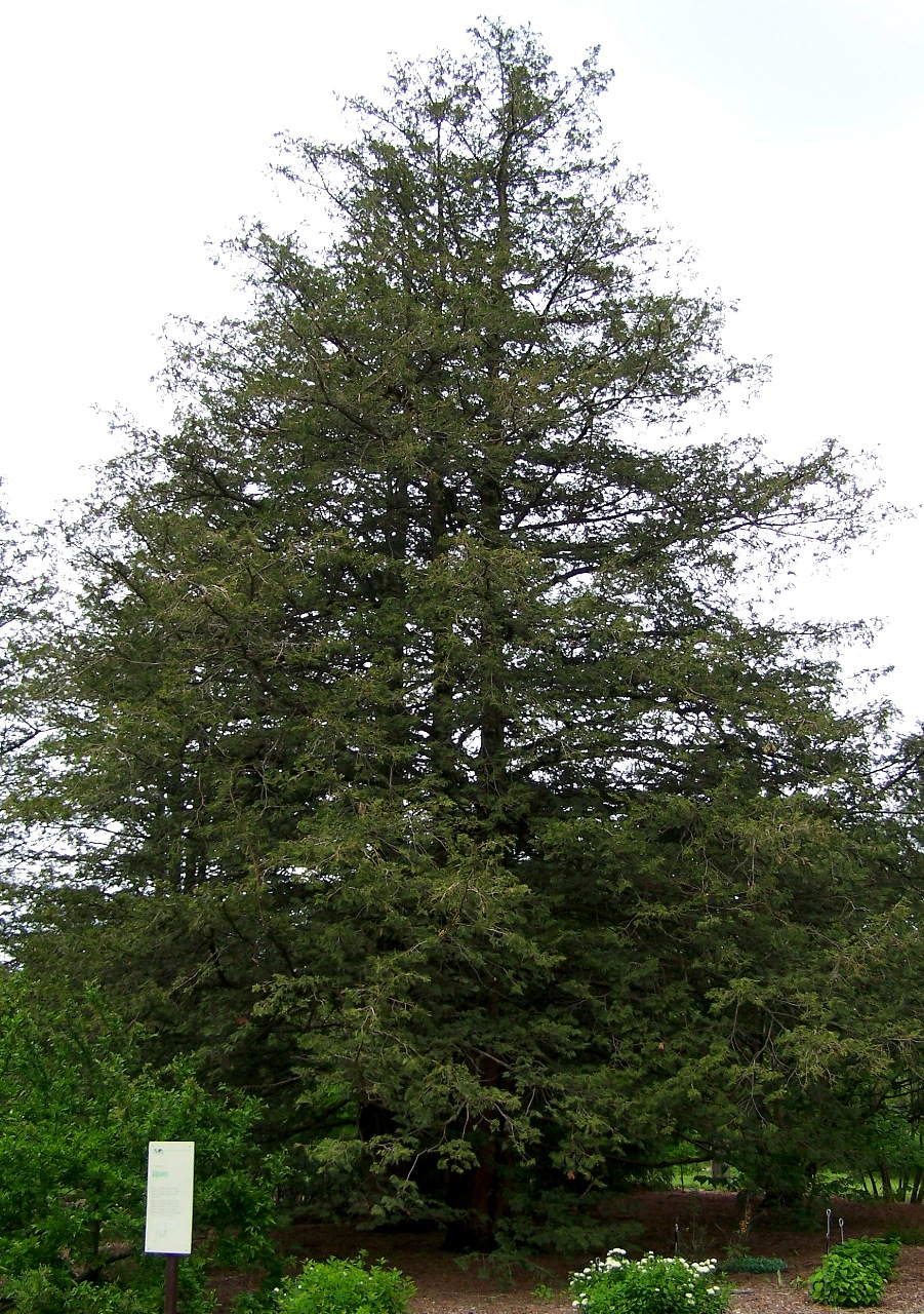 Chamaecyparis pisifera (Sawara Cypress). Morton Arboretum acc. 745-27*4